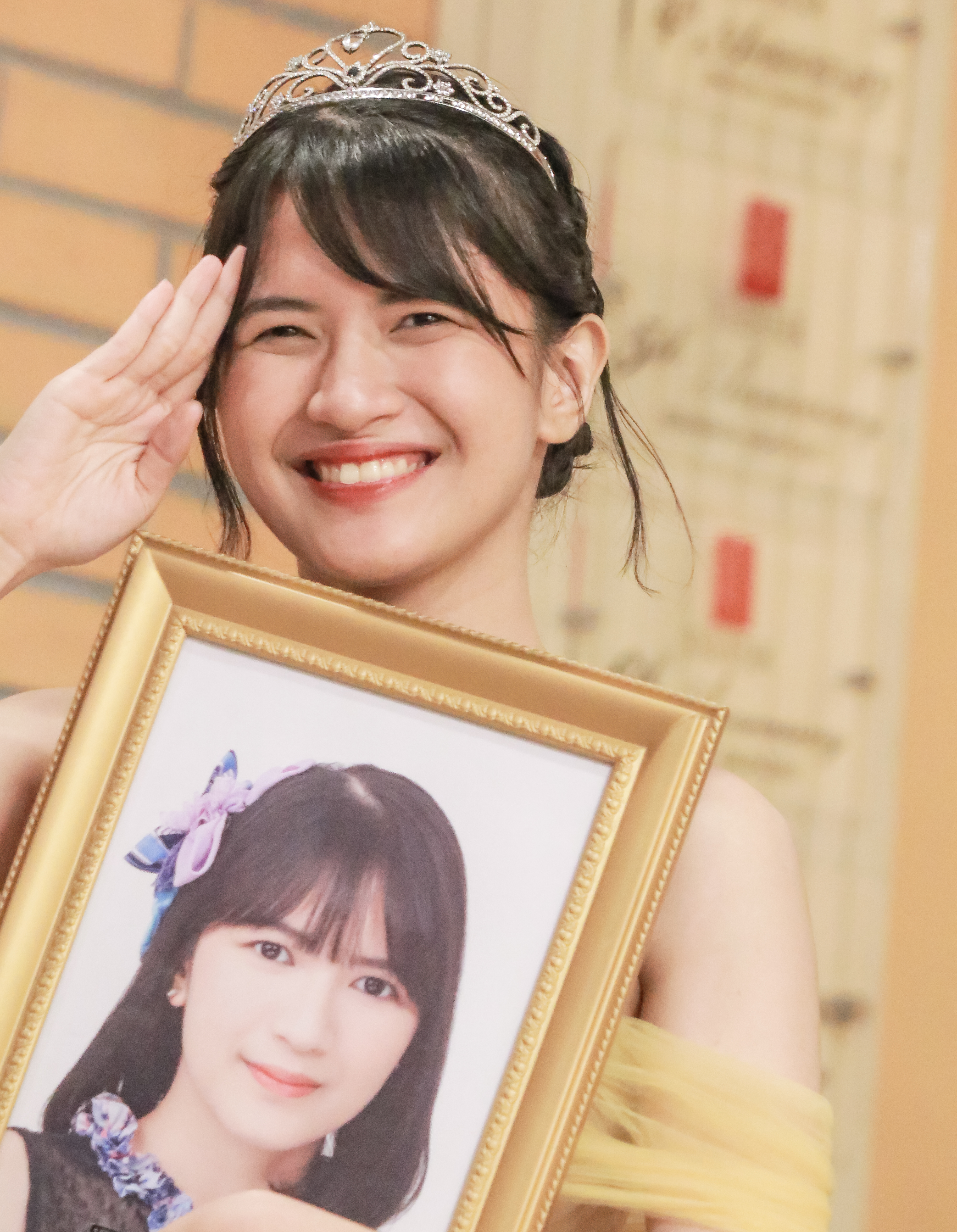 Ratu Vienny Fitrilya on 23 February 2020